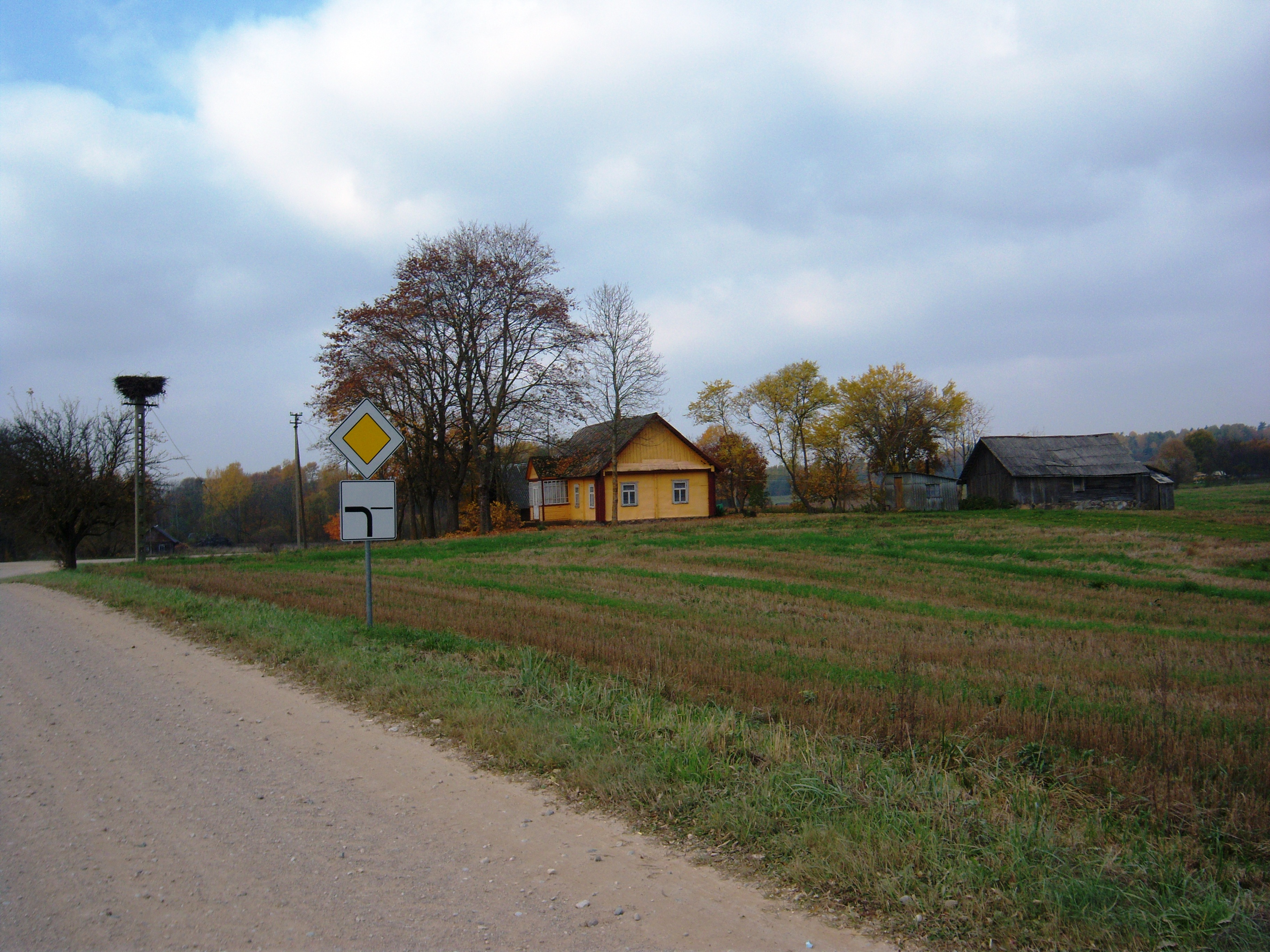 Janonys, Molėtai District, Lithuania